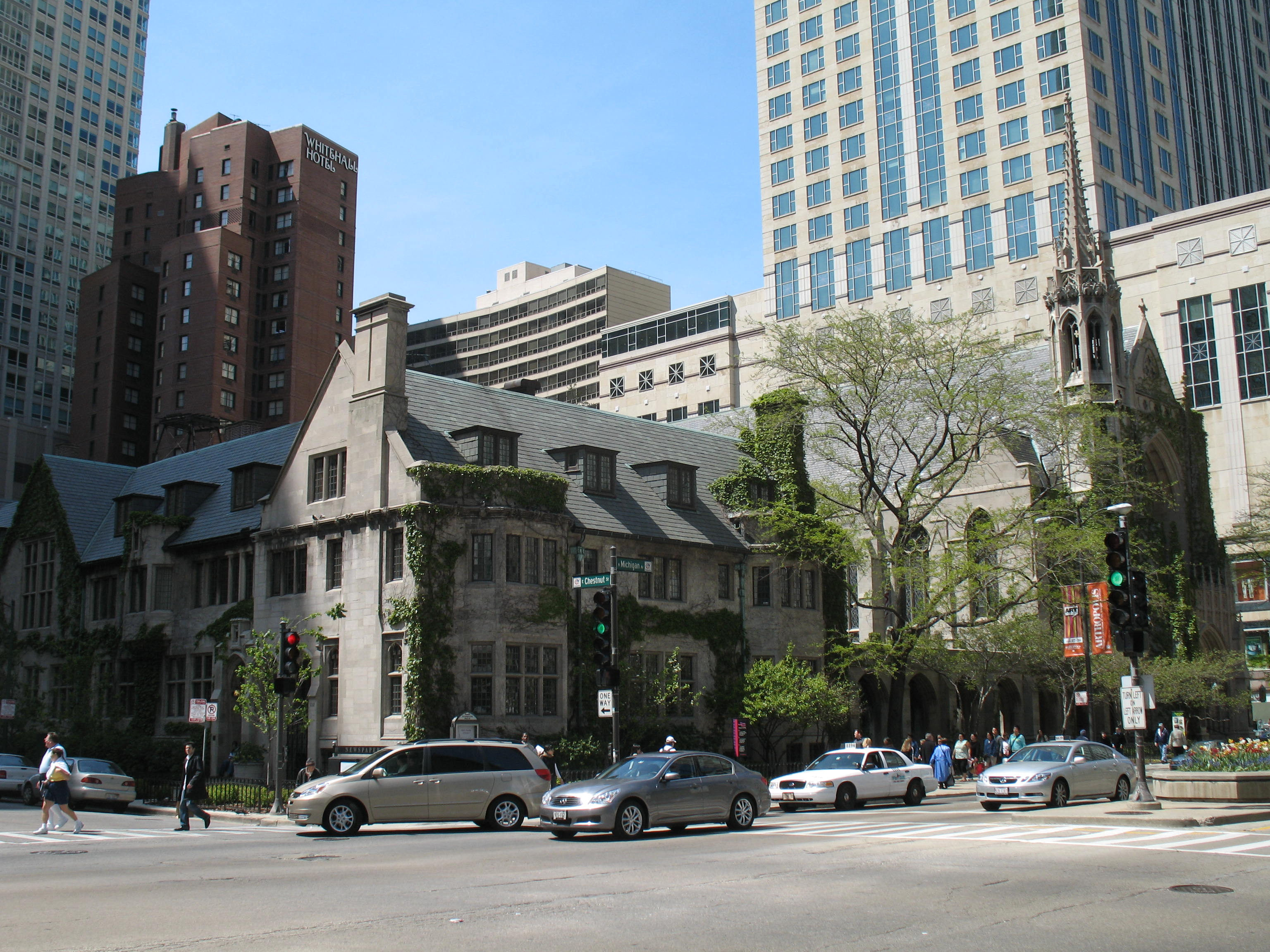 Fourth Presbyterian Church on Magnificent Mile. Background: Whitehall Hotel.